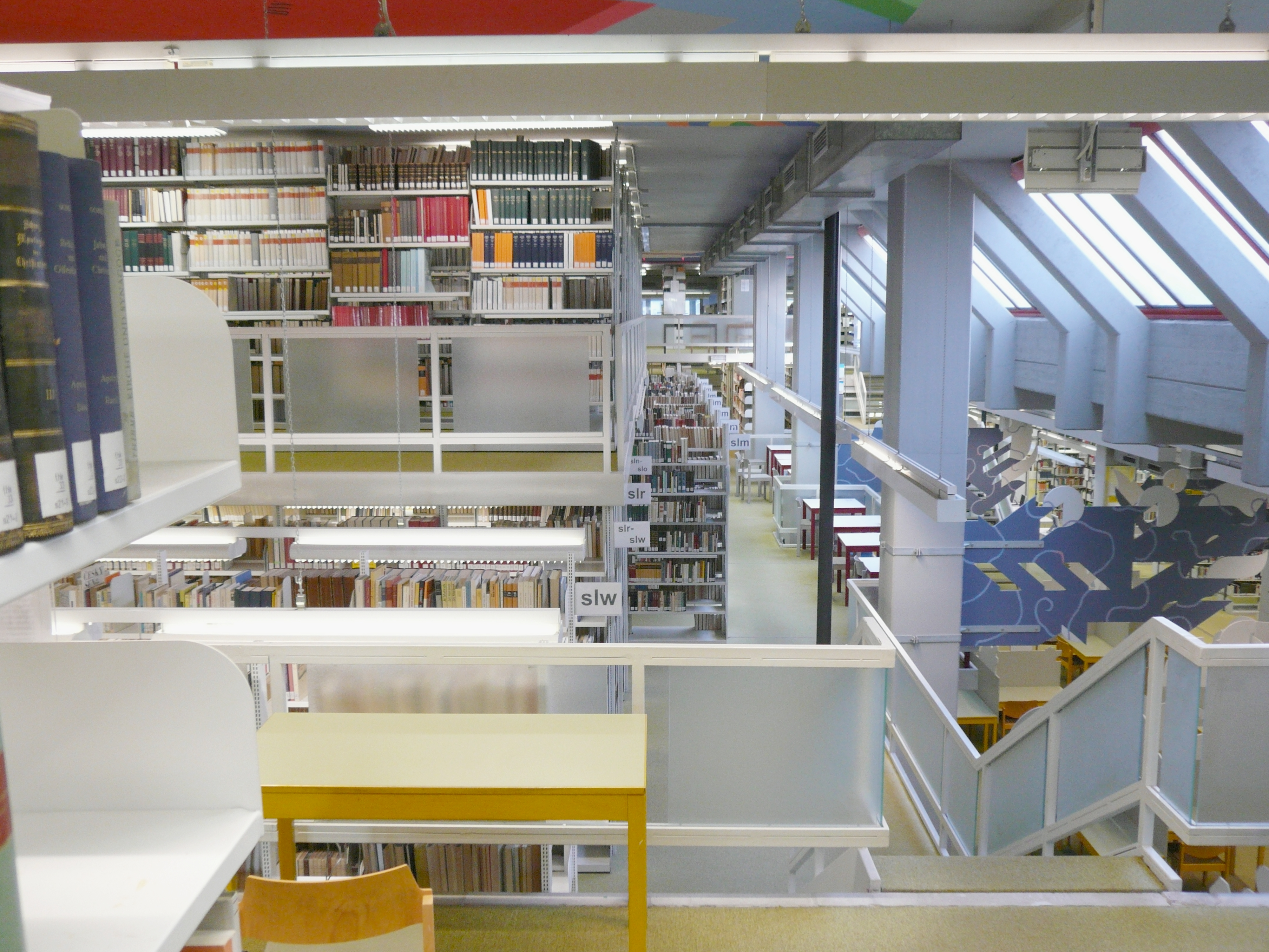 University Library of Konstanz interior